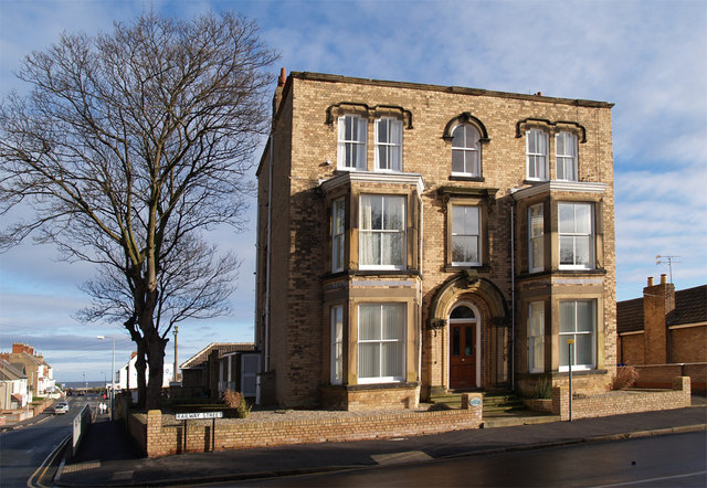 Brampton House, Railway Street, Hornsea, East Riding of Yorkshire, England.This house is on land developed by J.A. Wade from 1866 onwards. Initially named Albert Villa but later called Brampton House, it is a large detached house put up by 1882 for John Hunt, a Hull music-hall proprietor, as his own residence.